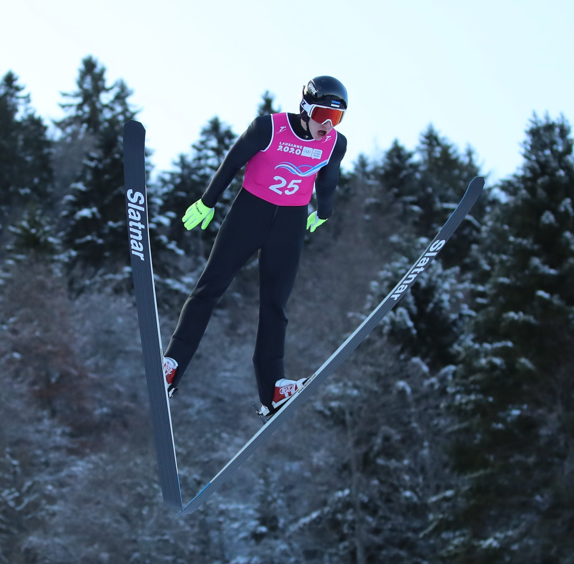 1st Round of Ski jumping – Men's Individual at the 2020 Winter Youth Olympics in Lausanne on 19 January 2020.